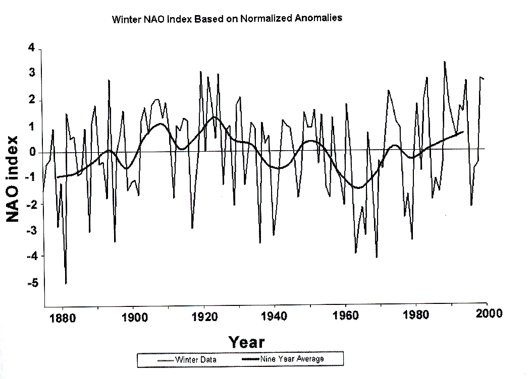 Graph of the North Atlantic Oscillation